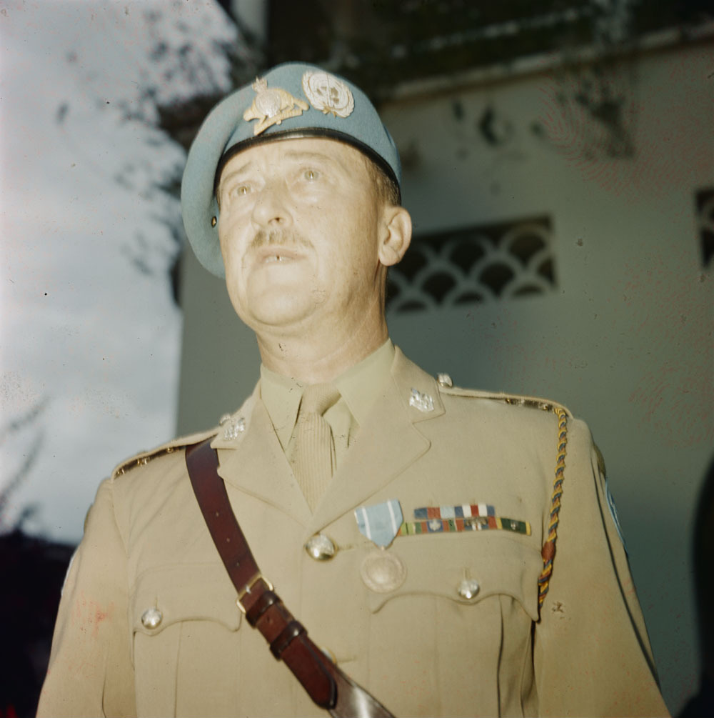 Lcol J.A. Berthiaume receiving the UN Congo mission medal in 1960